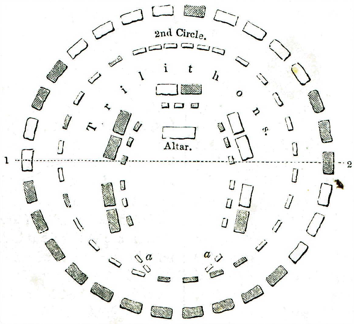 Stonehenge: Restored plan. Dr. Stukely’s drawing; the shaded stones were the ones remaining in the early 1840s when this plan was prepared.